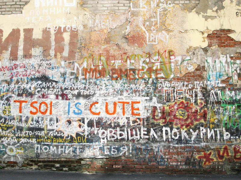 Tsoi Wall